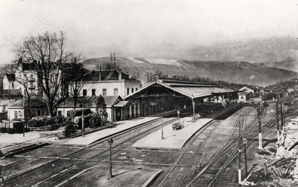 Picture of the city of Chambéry railway station (Savoie, France), around 1904 with its gilded hall and station buffet.